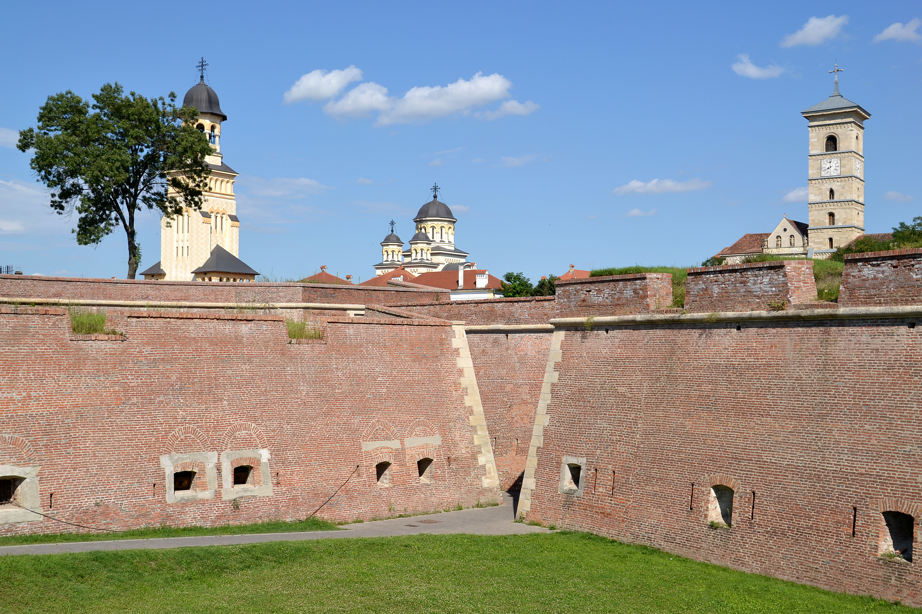 Alba Iulia (Gyulafehérvár, Karlsburg), Romania - churches in fortress